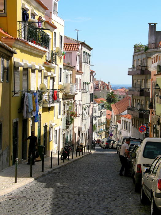 Bairro Alto (literally "upper quarter" in Portuguese) is an area of central Lisbon